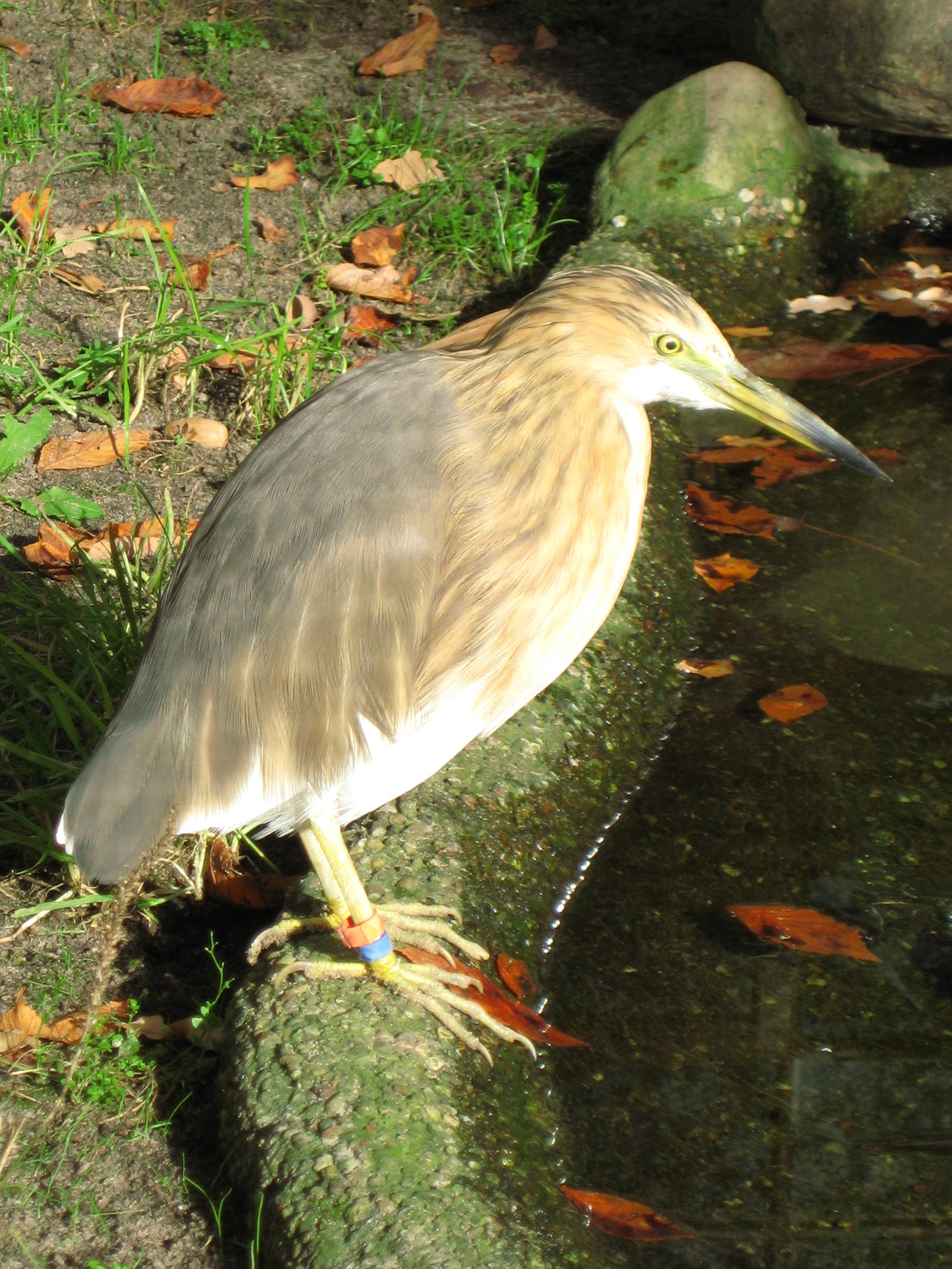 Javan Pond Heron at the Zoo of Berlin